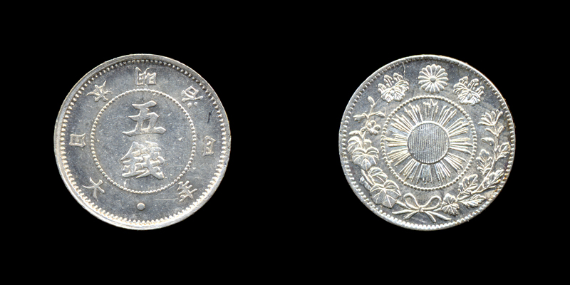 5sen-M4